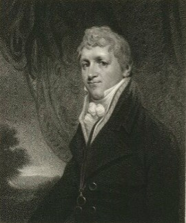 Portrait of Sir Frederick Francis Baker, 2nd Baronet (1772–1830), Fellow of the Royal Society.